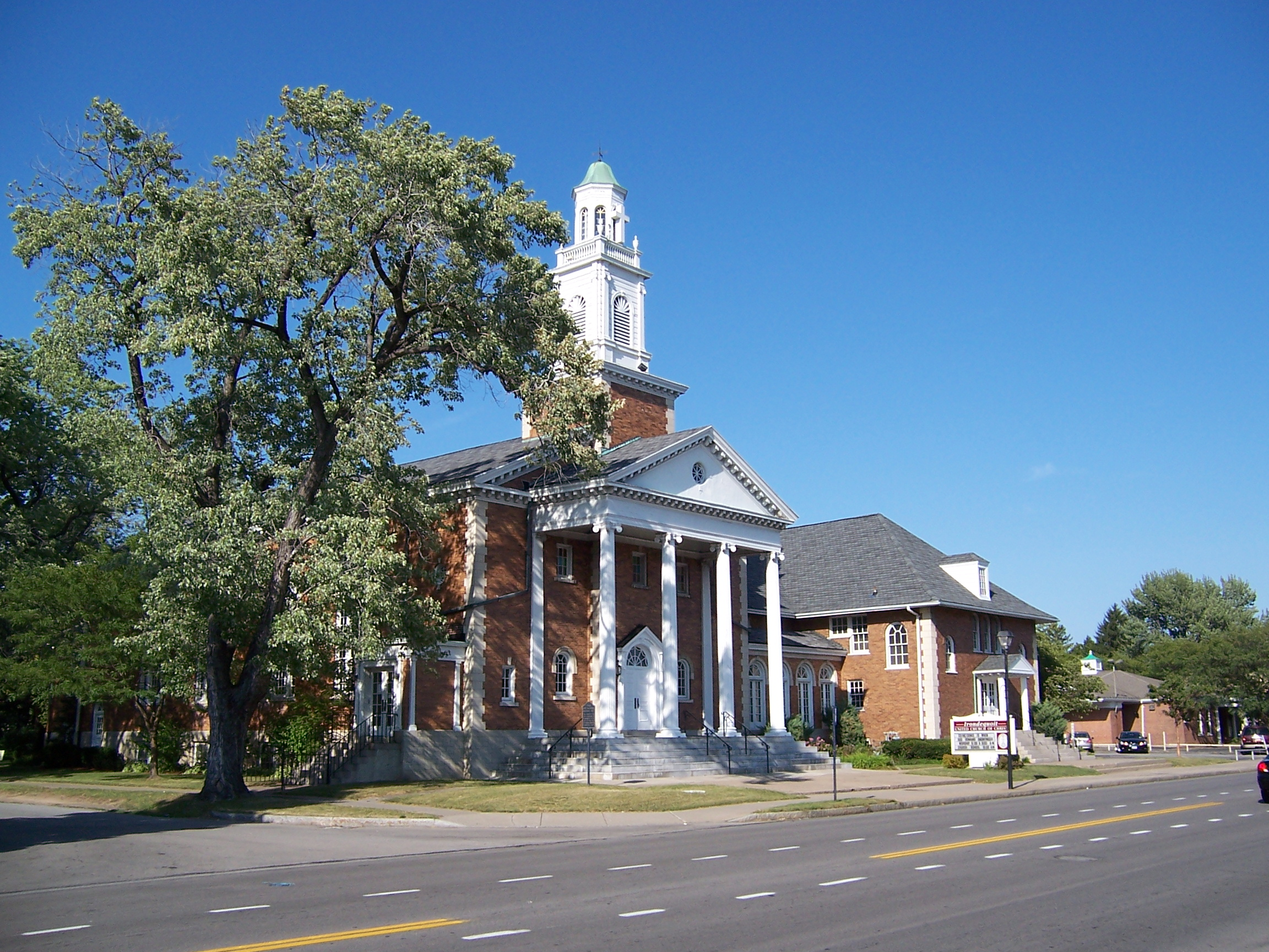 The Irondequoit Church of Christ, which was originally built in 1926 and was the first permanent church building in the town of Irondequoit, New York. When it built, it was known as the United Congregational Church of Irondequoit and it is listed on the National Register of Historic Places. The 1910 Woman's Christian Temperance Union hall and church school are attached.